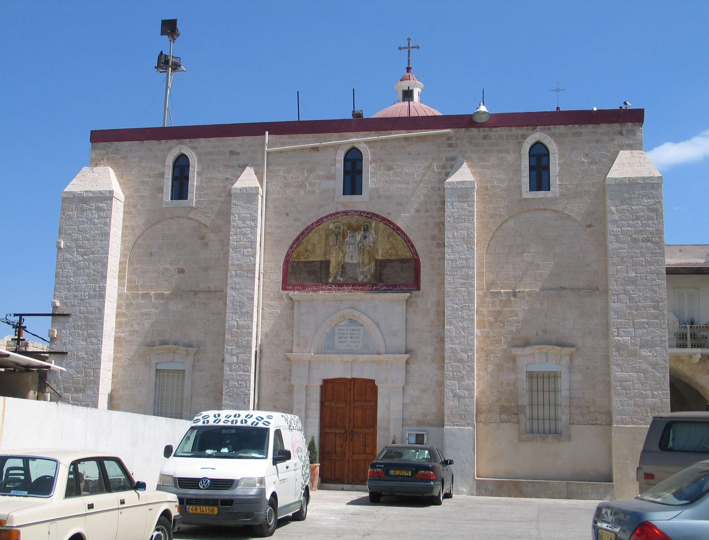 Ss. Peter and Paul Church, Shfaram, Israel.